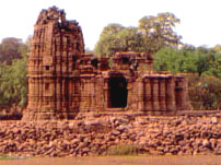 This is Historical sun temple of mahoba.